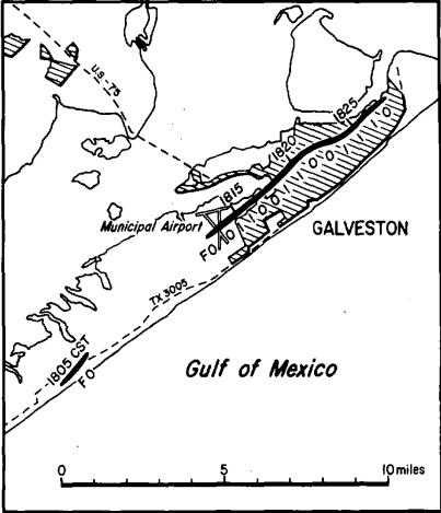 Map of the path of a tornado in the Galveston area spawned by Tropical Depression Eight in August 1981